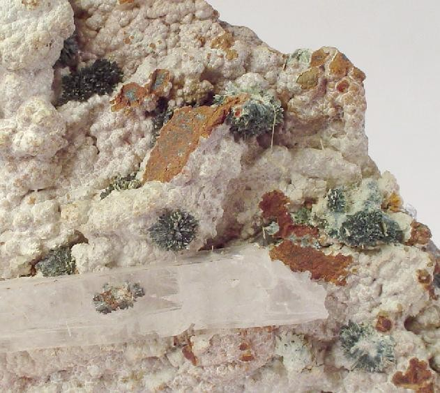 Köttigite, Gypsum (Var.: Gypsum), Mimetite Locality: Ojuela Mine, Mapimí, Municipio de Mapimí, Durango, Mexico (Locality at ) Size: 12.5 x 10.5 x 6.0 cm. Kottigite is a VERY RARE mineral from the famous Mina Ojuela and this showy CABINET combo specimen has at least 10 sprays of lustrous, grayish blue kottigite associated with a centrally located, 5.5cm, water-clear selenite on botryoidal mimetite-coated gossan matrix. Kottigite is related to legrandite, of which, Mina Ojuela is renowned. From the stock of Ed Swoboda. The last major find of kottigite at Mina Ojuela was in 1974 and remains a classic that is difficult to acquire in fine specimens.